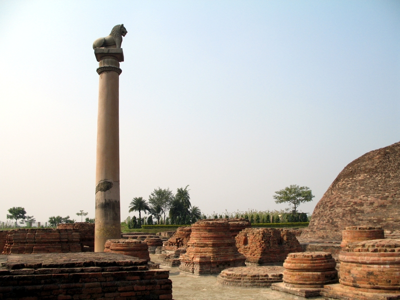 Asokan pillar, Vaisali, Bihar, India.